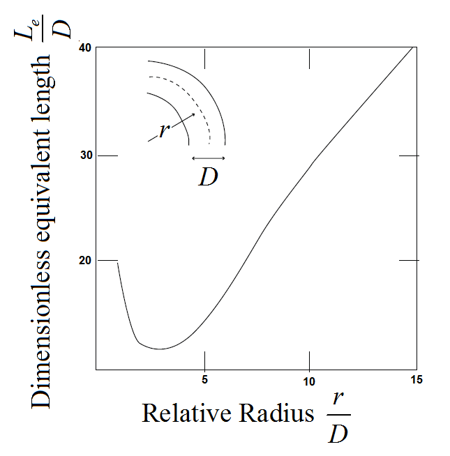 TURNING PIPE FRICTION LOSS COEF